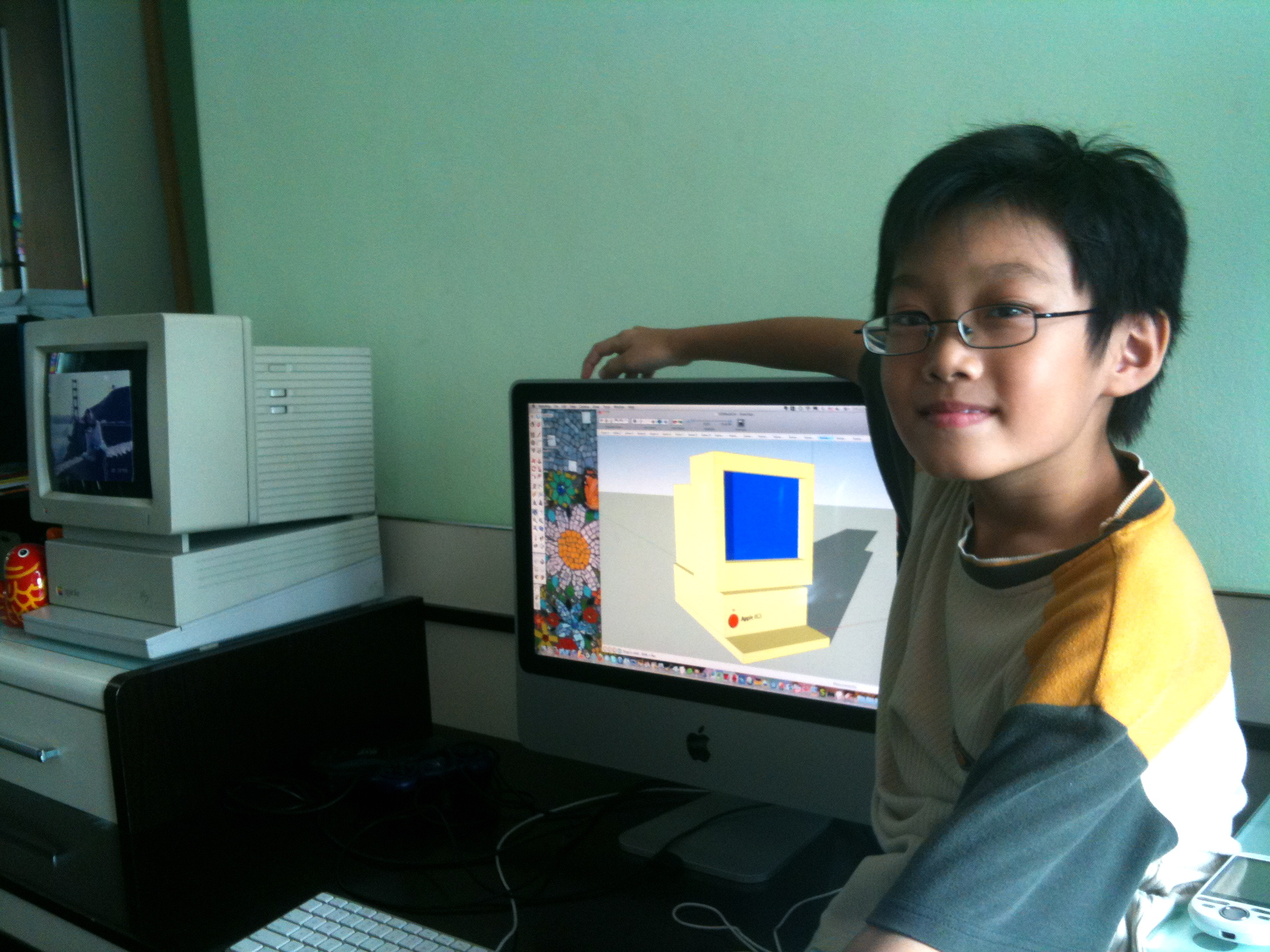 Young Singaporean computer programmer Lim Ding Wen using Google Sketchup to draw an Apple IIGS computer.